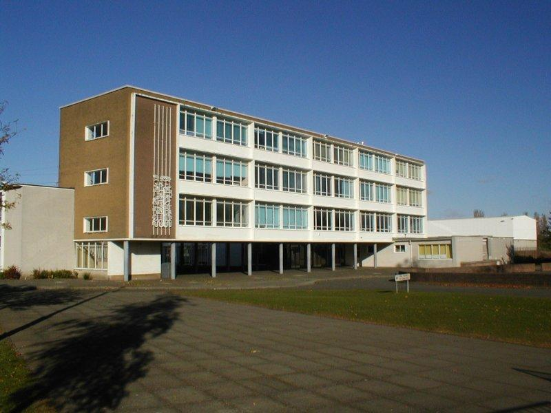 Auchmuty High School in 2004